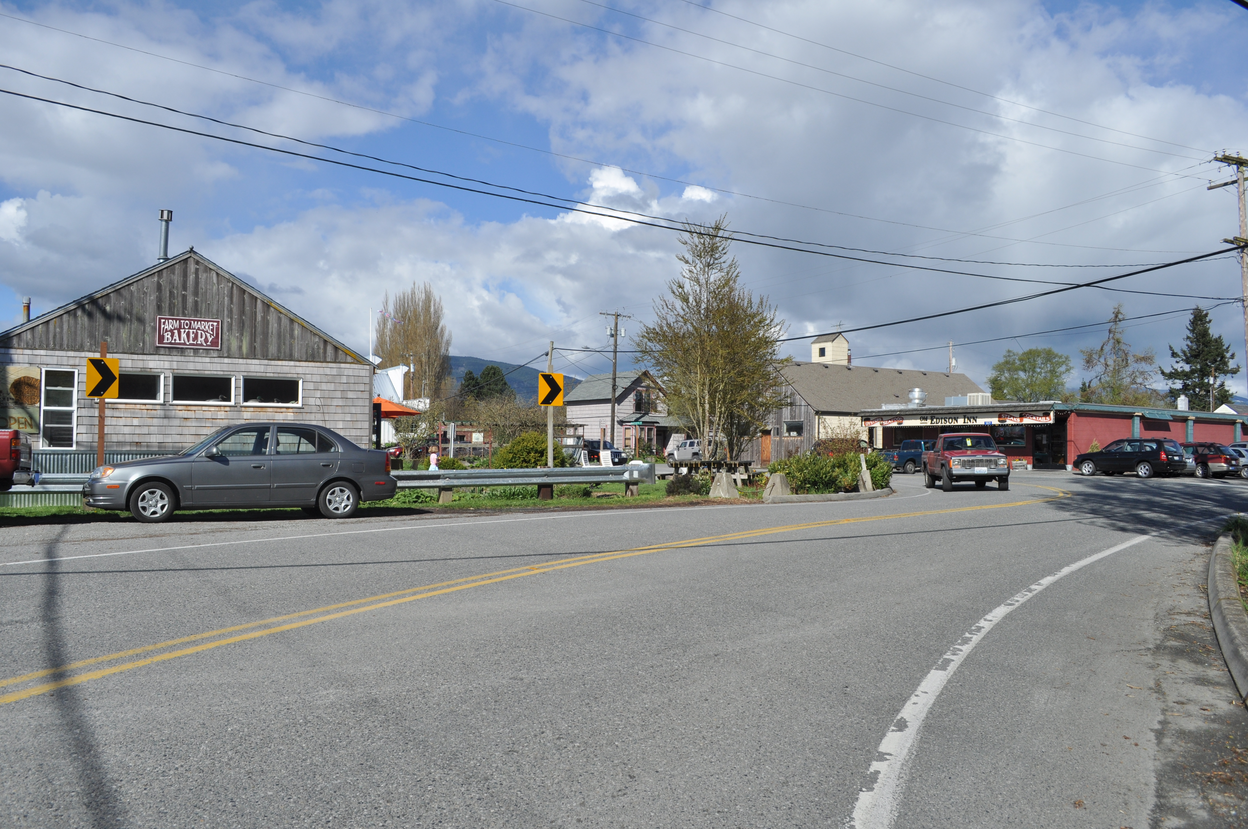 Farm to Market Road, coming into the center of Edison, Washington, U.S. from the south.